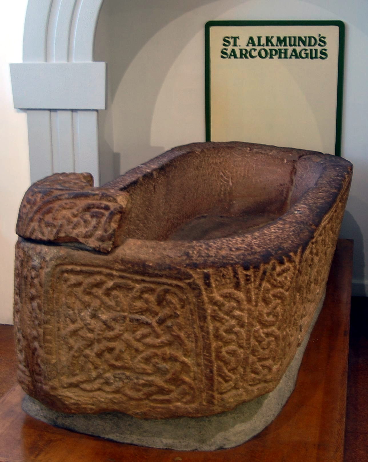 St Alkmund's Sarcophagus, at Derby Museum and Art Gallery. Taken during GLAMDerby Backstage Pass.